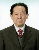 Seiji Tsutsumi, Member of Japan Art Academy, received the Person of Cultural Merit on November, 2012.